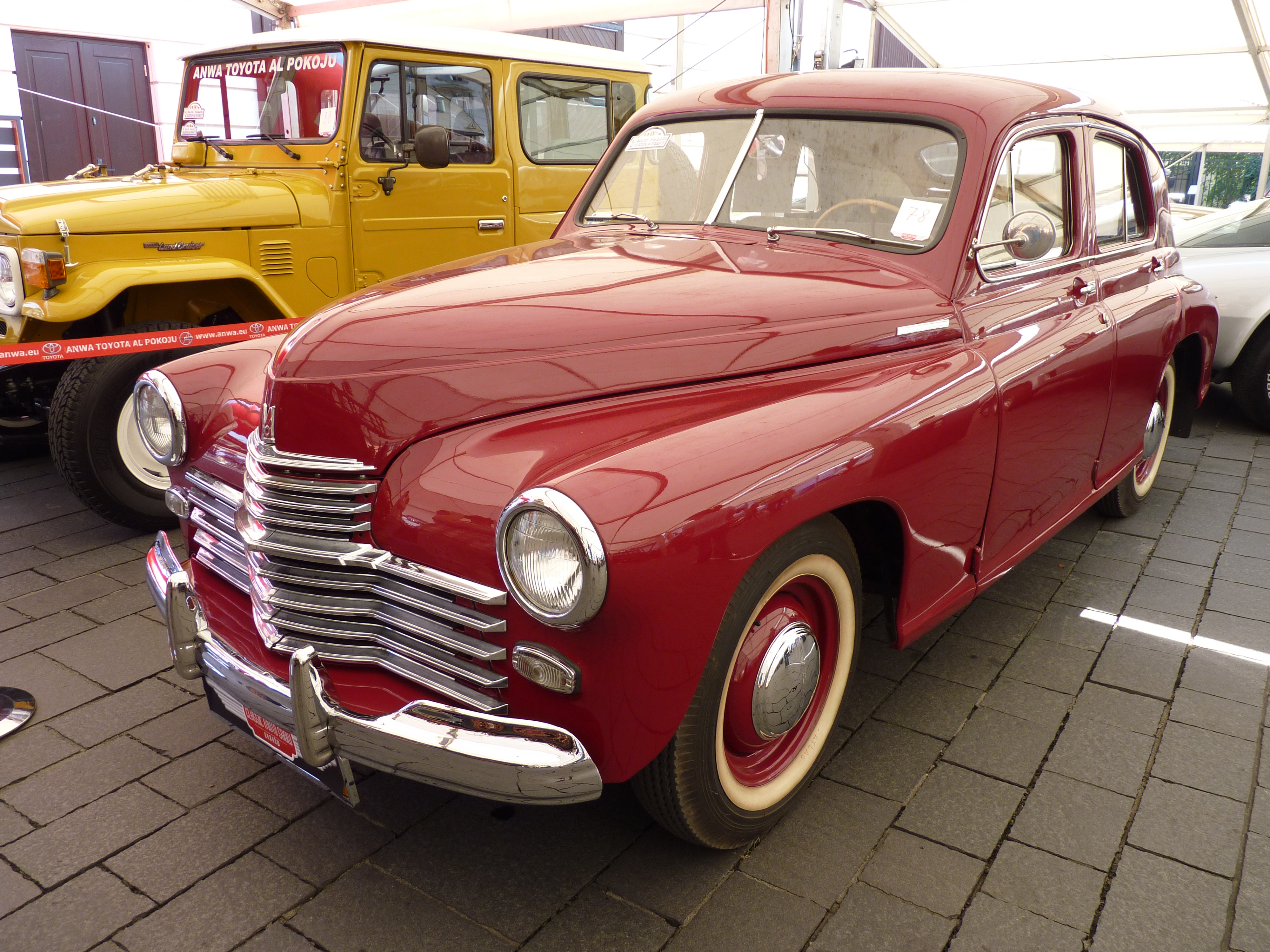 Classic Moto Show 2014 in Kraków. The categories of this image should be checked. Check them now! Remove redundant categories and try to put this image in the most specific category/categories Remove this template by clicking here (or on the first line)